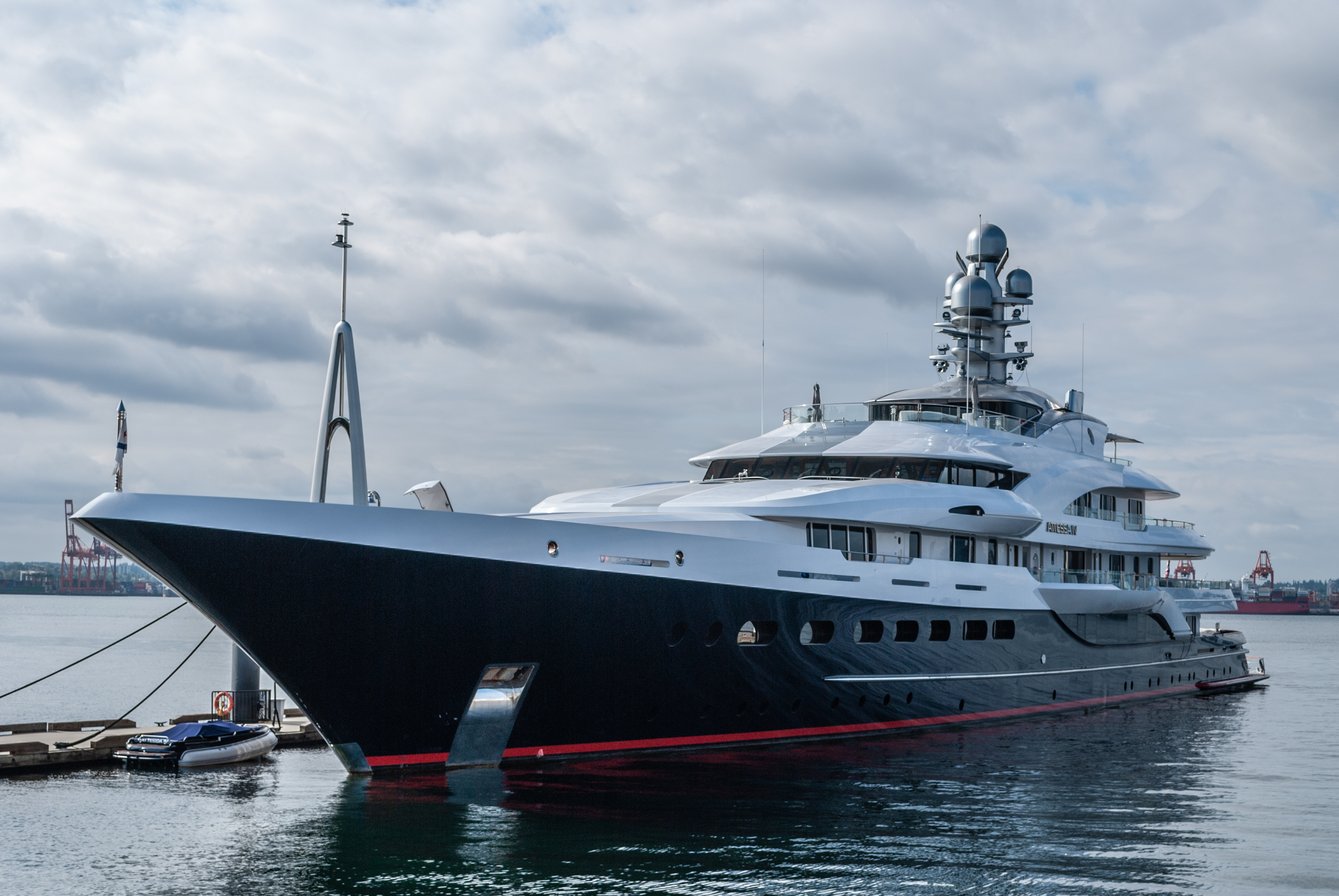 Motor yacht (100 m), ATTESSA IV - IMO 9179830, at Lonsdale Quay, North Vancouver, BC Canada on September 1, 2018. The ship is owned by Dennis Washington.